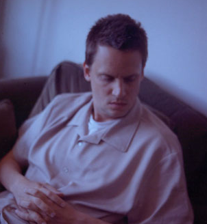 Mark Kozelek